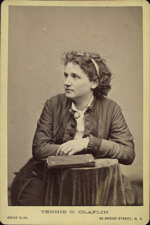 Feminist and suffragette "Tennessee" C. Claflin